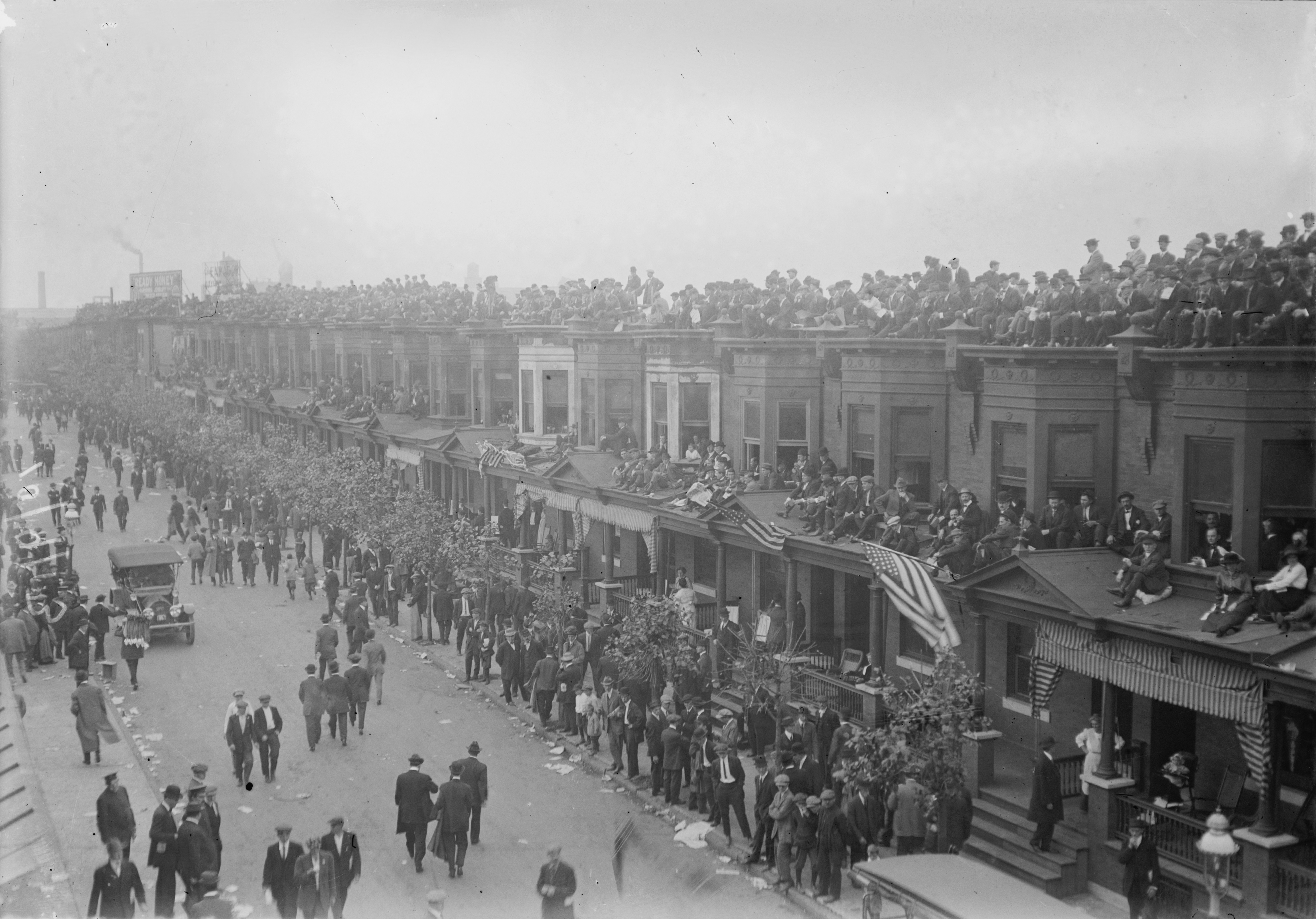 Shibe Park's famous rooftop bleachers in 1913.